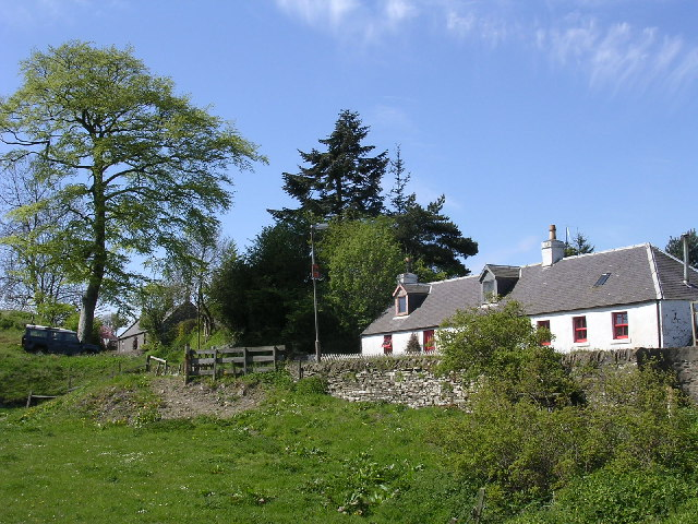 Kellas. The view is taken from the north east corner of the box looking SW along the B978